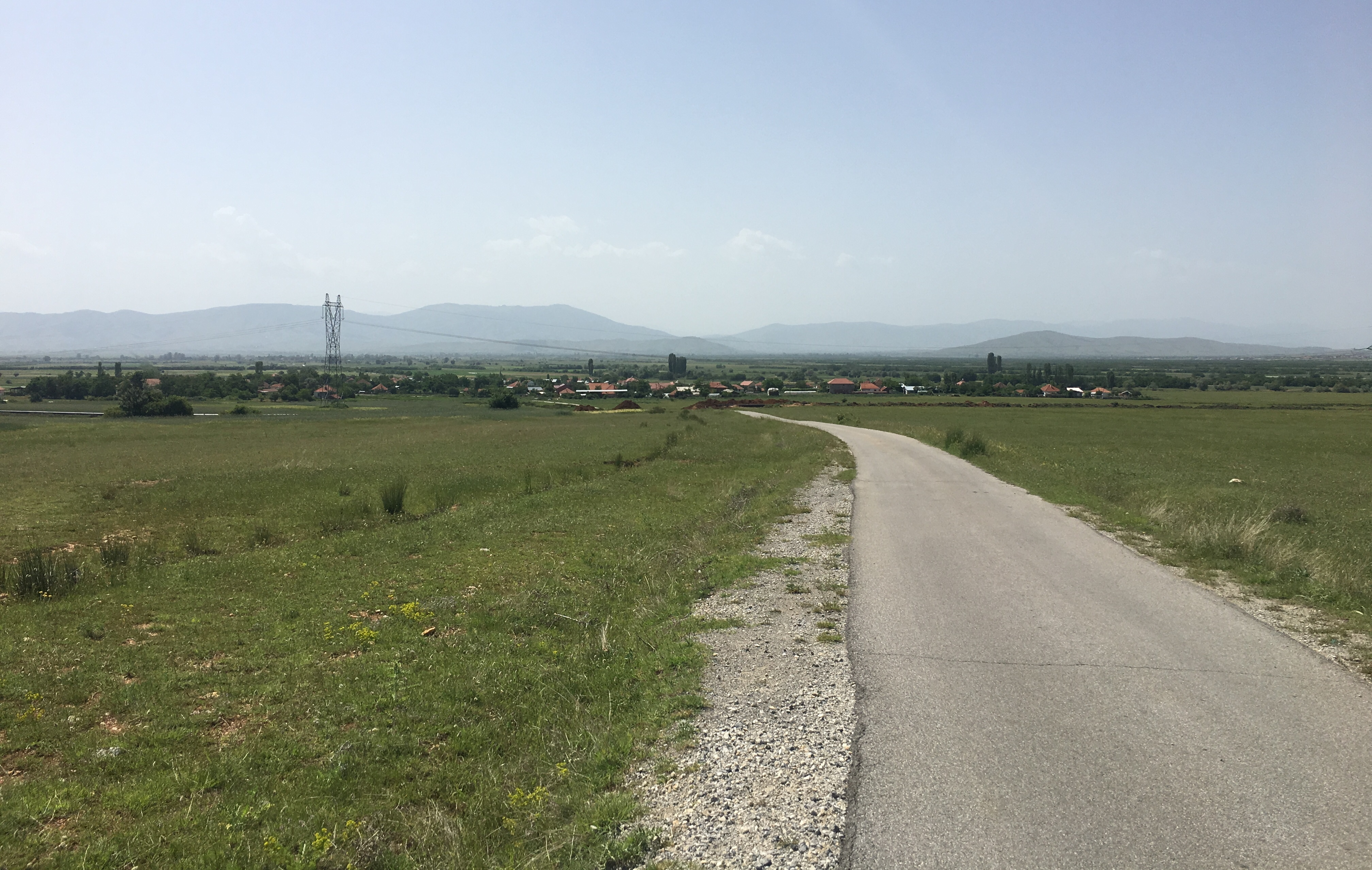 A panoramic view of the village of Musinci